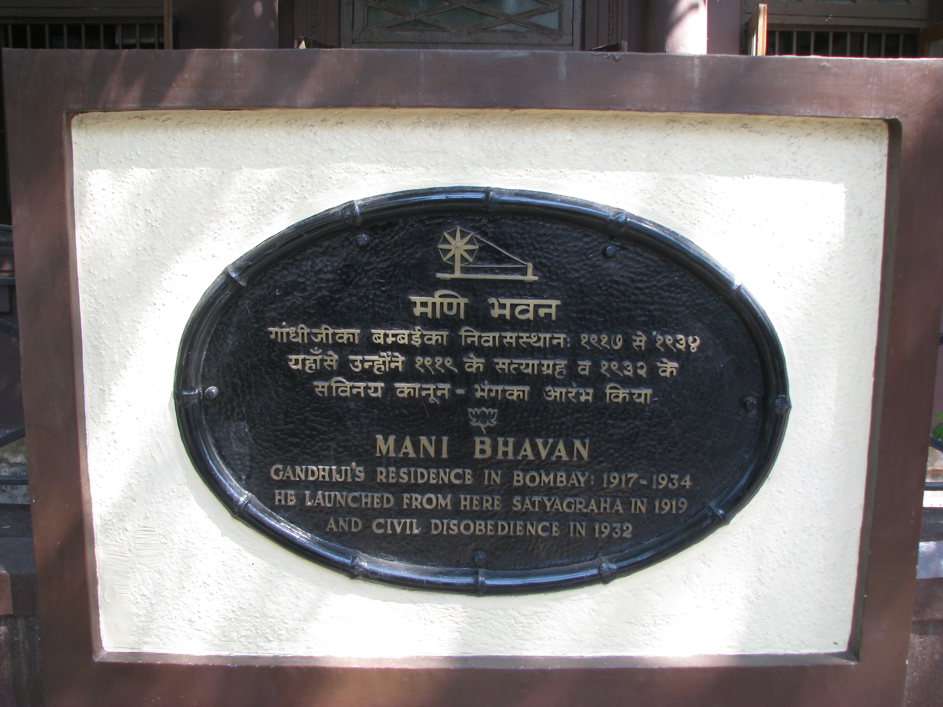 Mani Bhavan, 17 Laburnam Road, Mumbai India, where Mahatma Gandhi lived from 1917 to 1934.